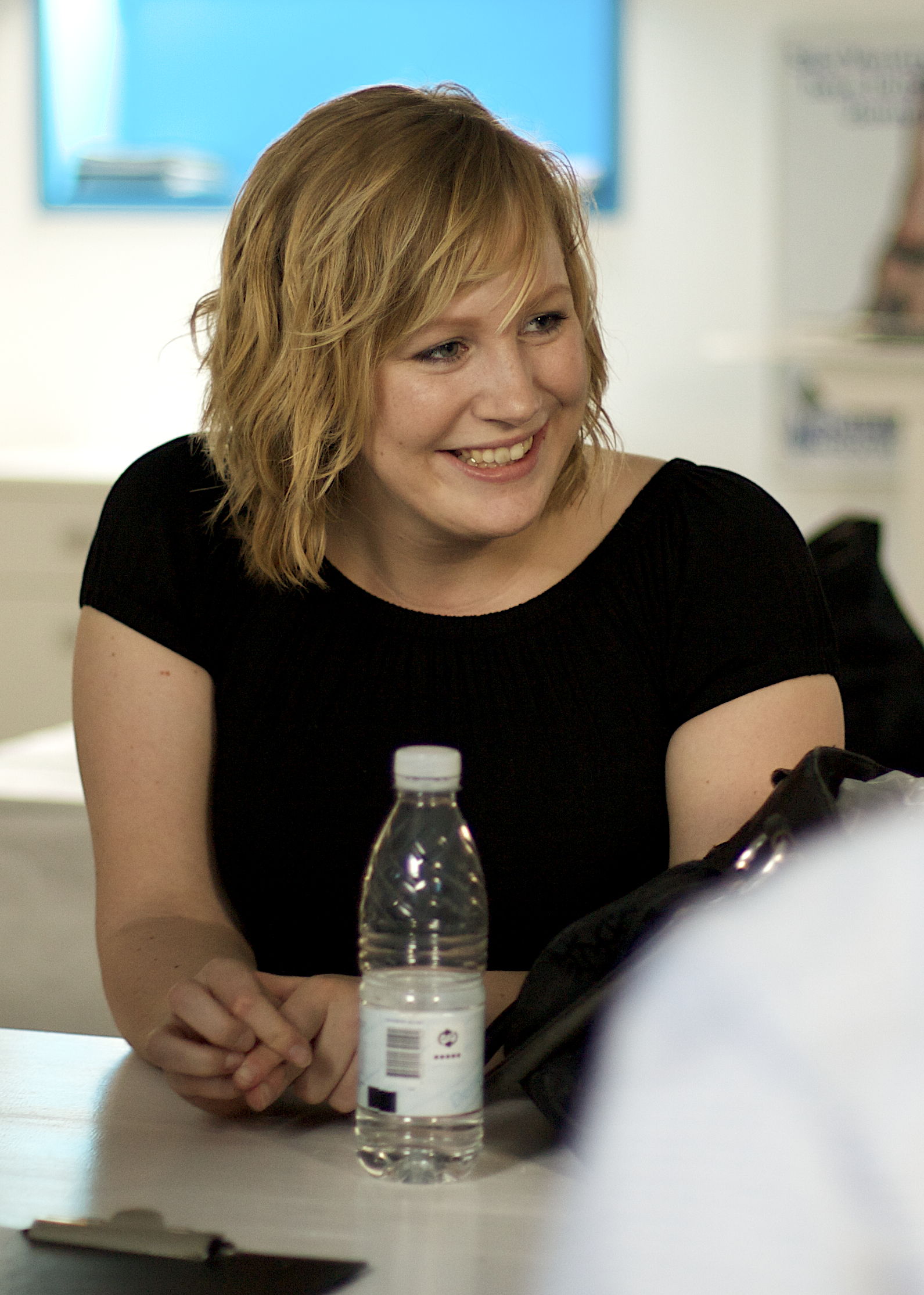 Elise Patricia Rasmussen, danish politician and formor chairman of Borgerligt Centrum Ungdom.